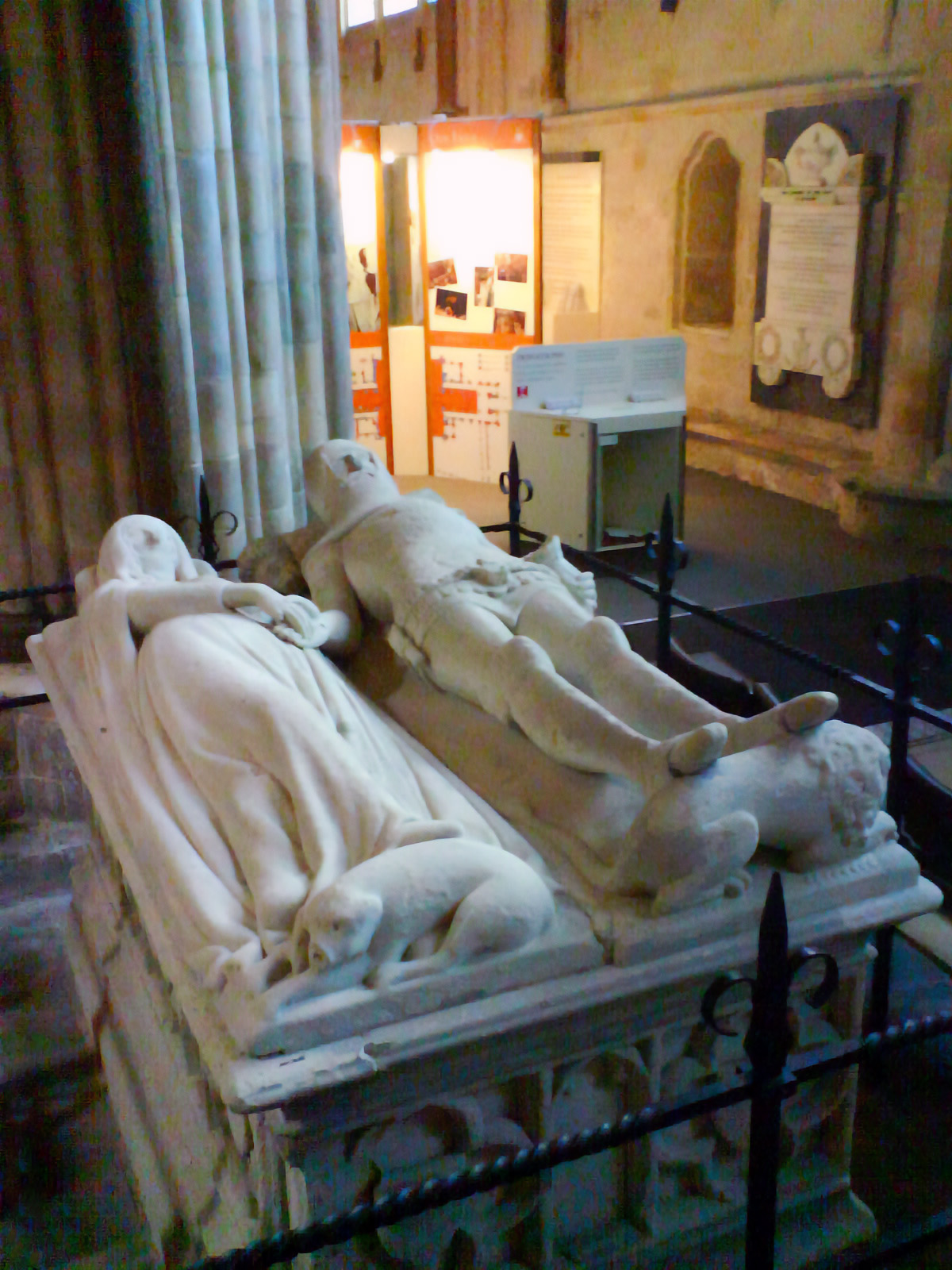 The 14th-century tomb effigy in Chichester Cathedral which inspired Larkin's poem "An Arundel Tomb" (Note: The effigies in Chichester Cathedral are attributed to Richard FitzAlan and Eleanor of Lancaster. FitzAlan and Eleanor were actually buried in Lewes Priory. Although Larkin called the effigies a "tomb", they are actually a "memorial". See Talk, Distinction needs to be made: Not a "tomb" but a "memorial".) The plaque in the cathedral reads as follows: An Arundel Tomb The figures represent Richard Fitzalan III, 13th Earl of Arundel (ca 1307-1376) and his second wife Eleanor, who by his will of 1375 were to be buried together "without pomp" in the chapter house of Lewes Priory. The armour and dress suggest a date near 1375; the knight's attitude is typical of that time, but the lady's crossed legs, giving the effect of a turn towards her husband, are rare. The joined hands have been thought due to "restoration" by Edward Richardson (1812-69), but recent research has shown the feature to be original. If so, the monument must be one of the earliest showing the concession to affection where the husband was a knight rather than a civilian.